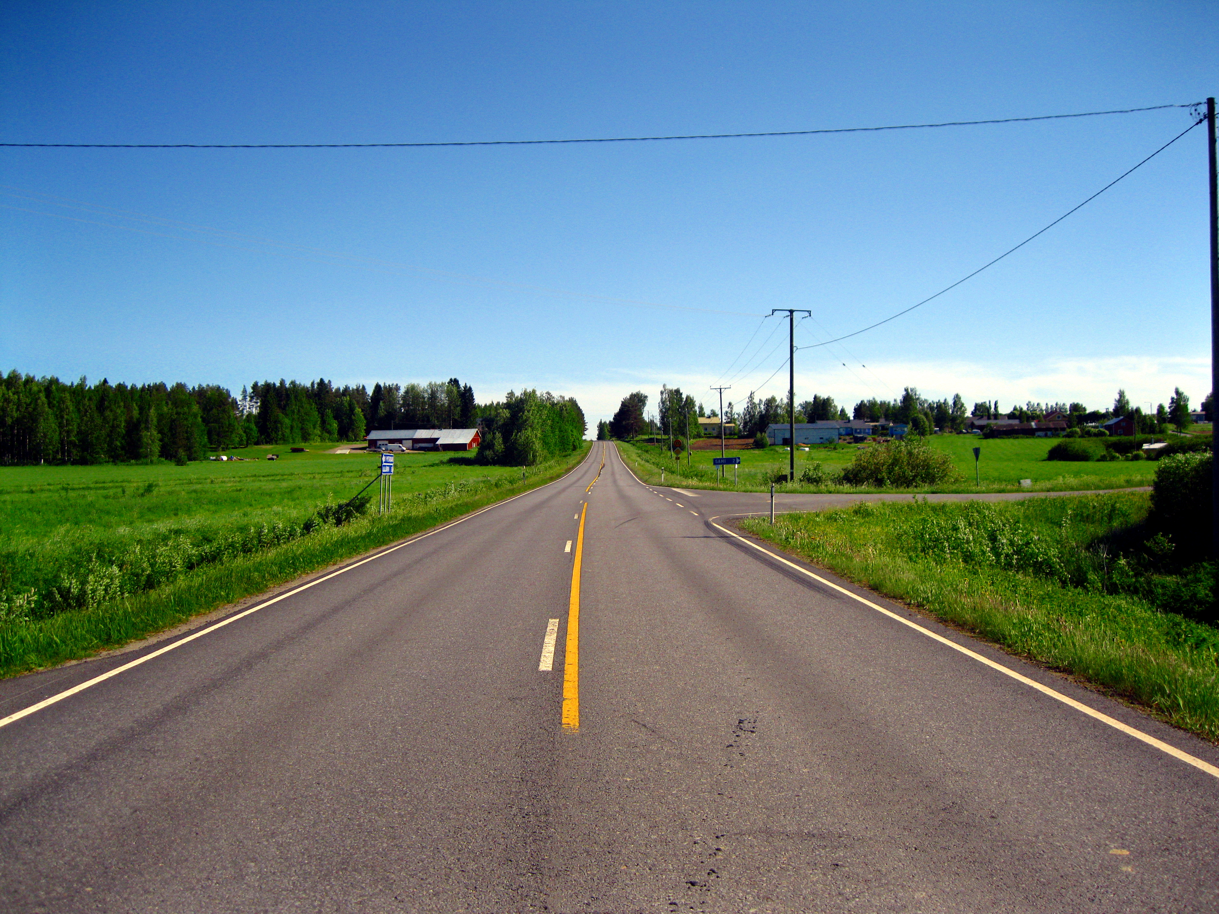 National Road 68 in Vimpeli, Finland.